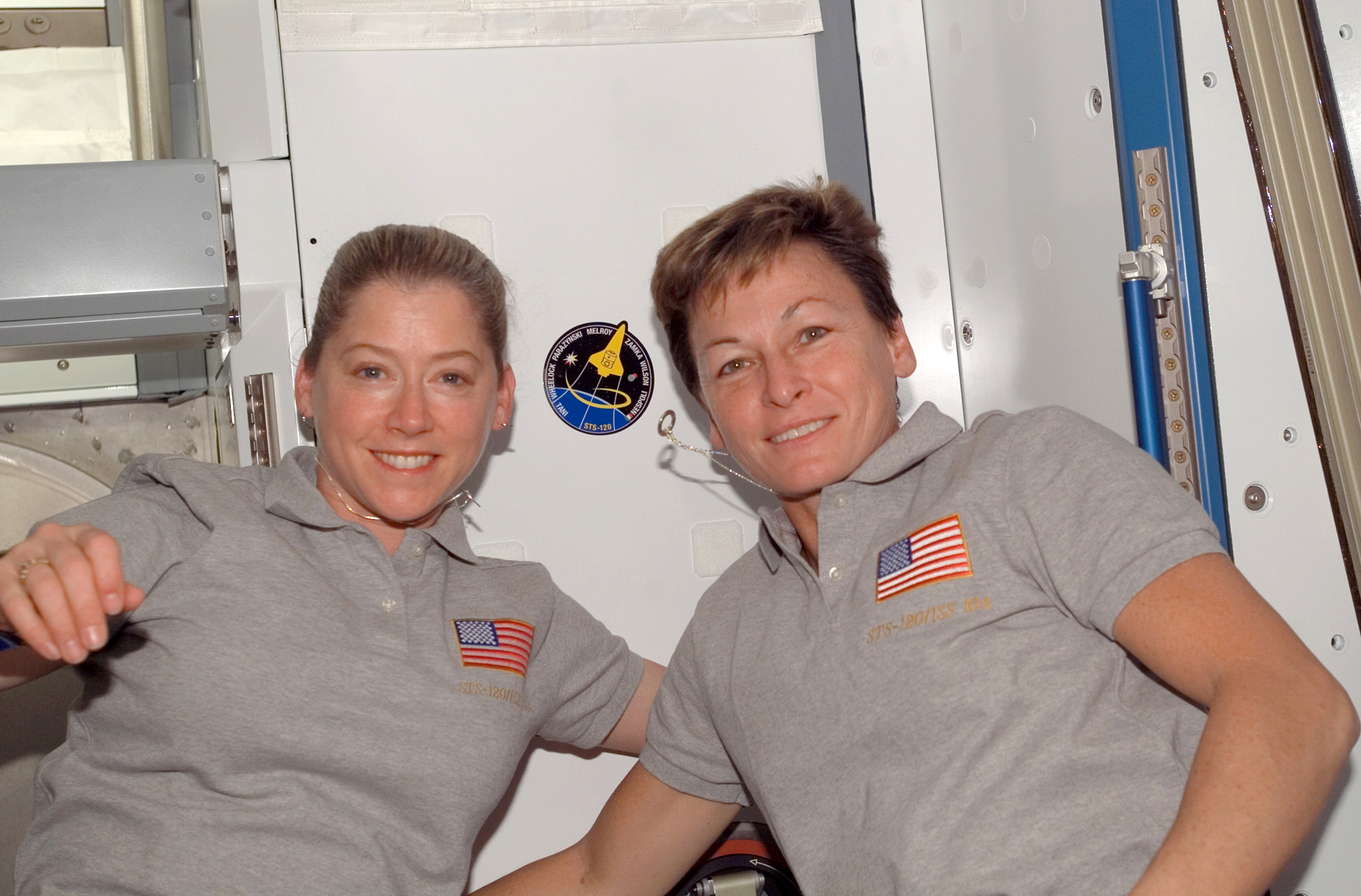 Astronauts Pam Melroy (left), STS-120 commander; and Peggy Whitson, Expedition 16 commander, pose for a photo after placing the STS-120 crew patch in the Harmony node -- newest addition to the International Space Station -- while Space Shuttle Discovery is docked with the station.